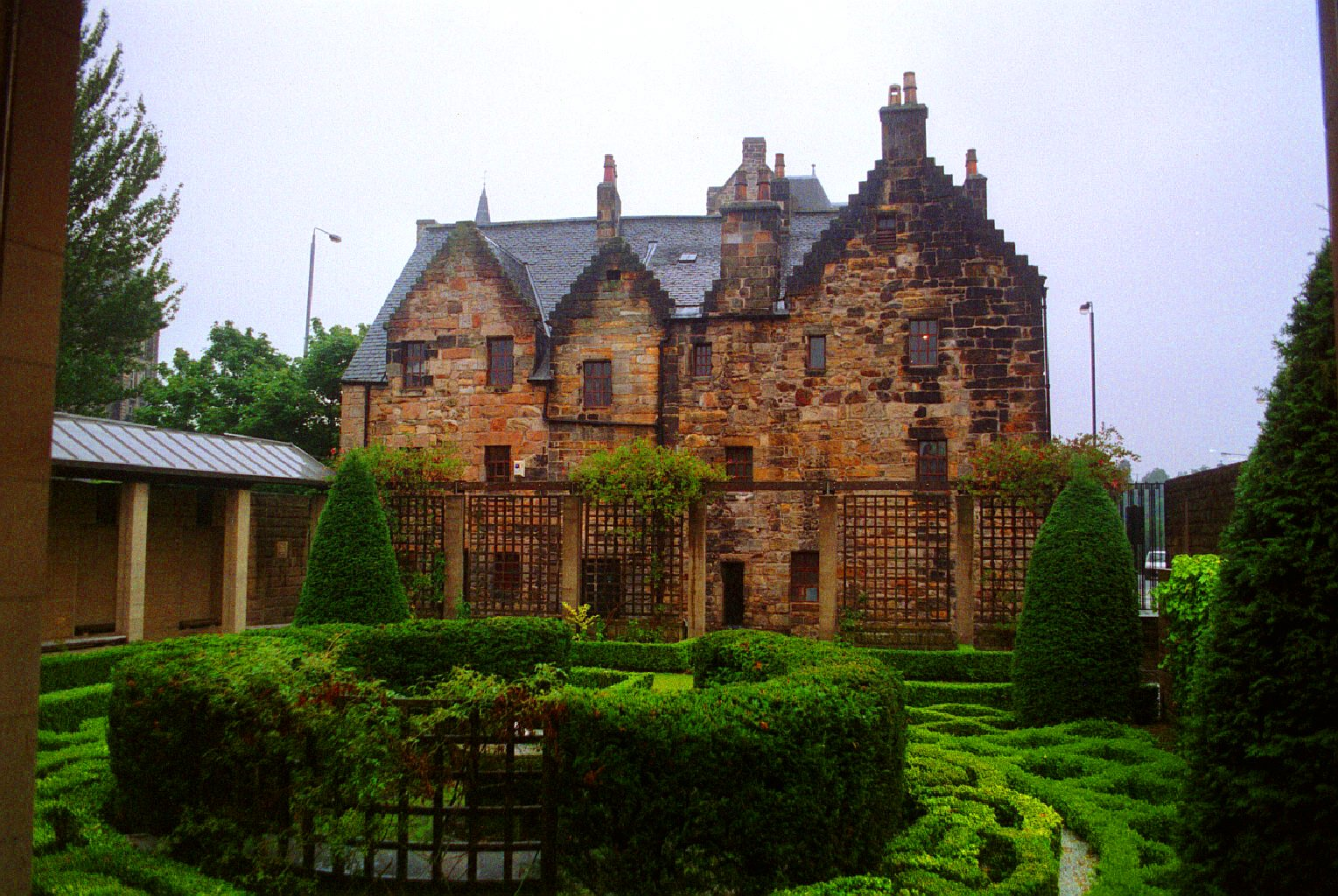 Provand's Lordship